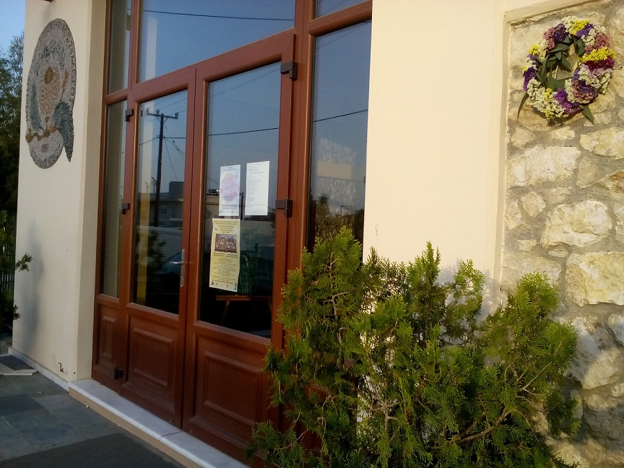 Ampernalli.gr